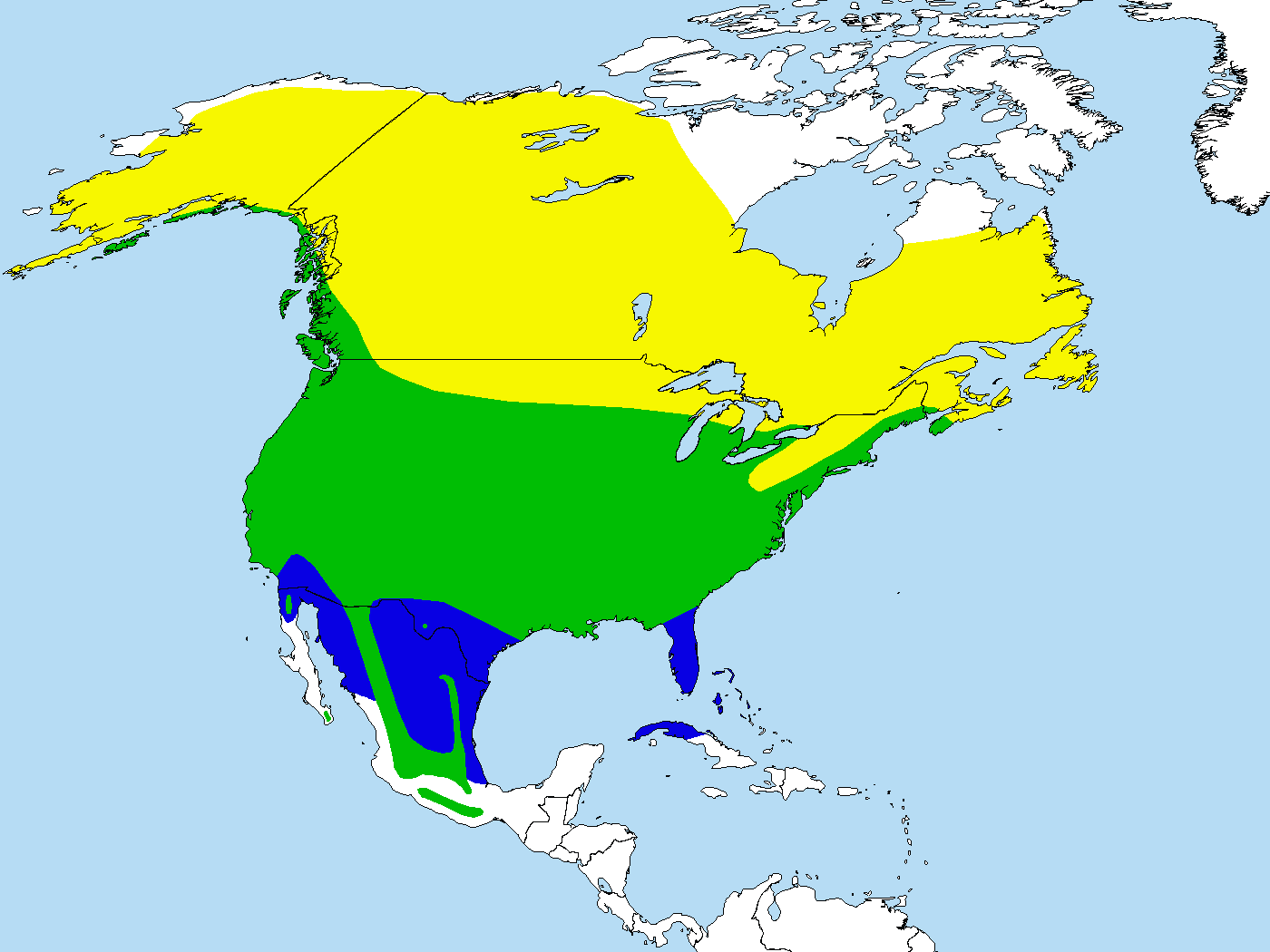 Approximate range/distribution map of the American Robin (Turdus migratorius). In keeping with WikiProject: Birds guidelines, yellow indicates the summer-only range, blue indicates the winter-only range, and green indicates the year-round range of the species.